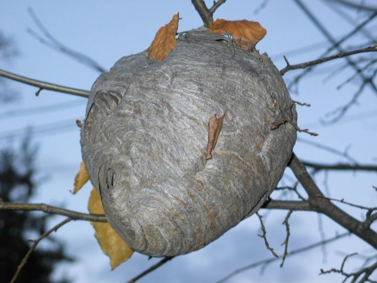 Credit: Photo created by Sascha Noyes Info: Taken in Toronto in 2003 with a Canon G3 digital camera